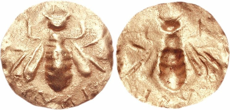 “Charon’s Obol”. 5th-1st century BC. AV 12mm (0.23 g). Bee / Incuse of obverse. A variety of thin, uniface disks of this nature are known that have a single obverse type that mimics a coin type (see, e.g., CNG 55, lot 359, mimicking the reverse type of New Style Tetradrachms of Athens; and CNG 55, lot 1866, mimicking the reverse type of Sikyon staters). The present piece was obviously influenced by the obverse of Ephesos (or Arados) drachms. All of these pseudo-coins have no sign of attachment, are too thin for normal use, and are often found in burial sites. In ancient times, it was customary to place coins with the dead during burial so that the deceased could pay the boatman Charon to ferry them across the river Styx. These uniface tokens probably also served this same purpose.